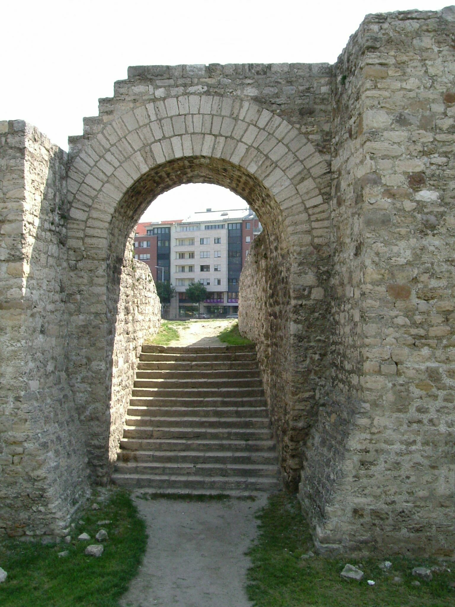 Amphitheater of the Military Town, Óbuda - Budapest - Hungary - Europe. Amphitheatre in the Nagyszombat street - entrance